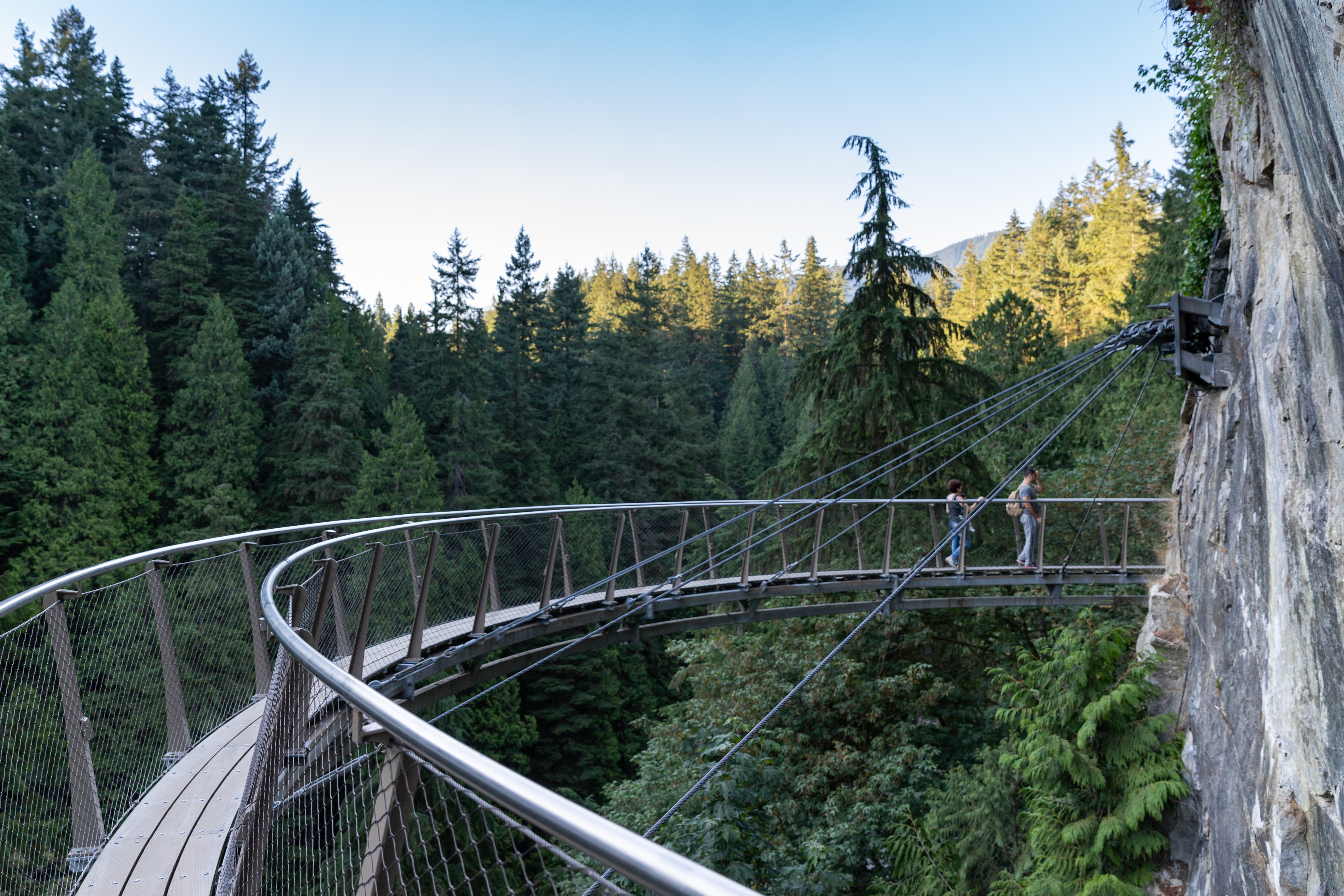 Cliffwalk at Capilano Vancouver